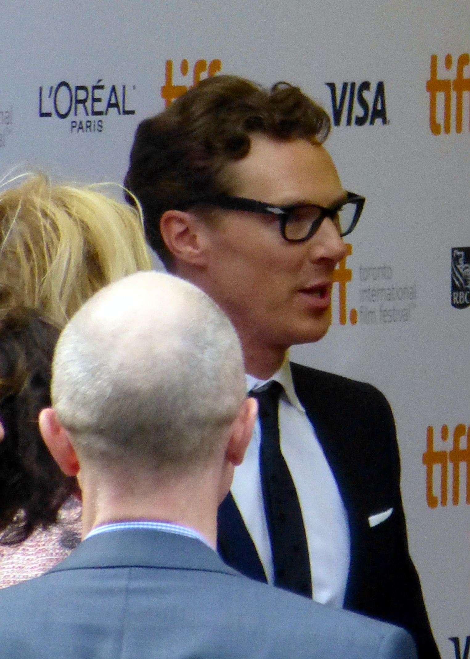 Benedict Cumberbatch at the premiere of The Imitation Game, 2014 Toronto Film Festival